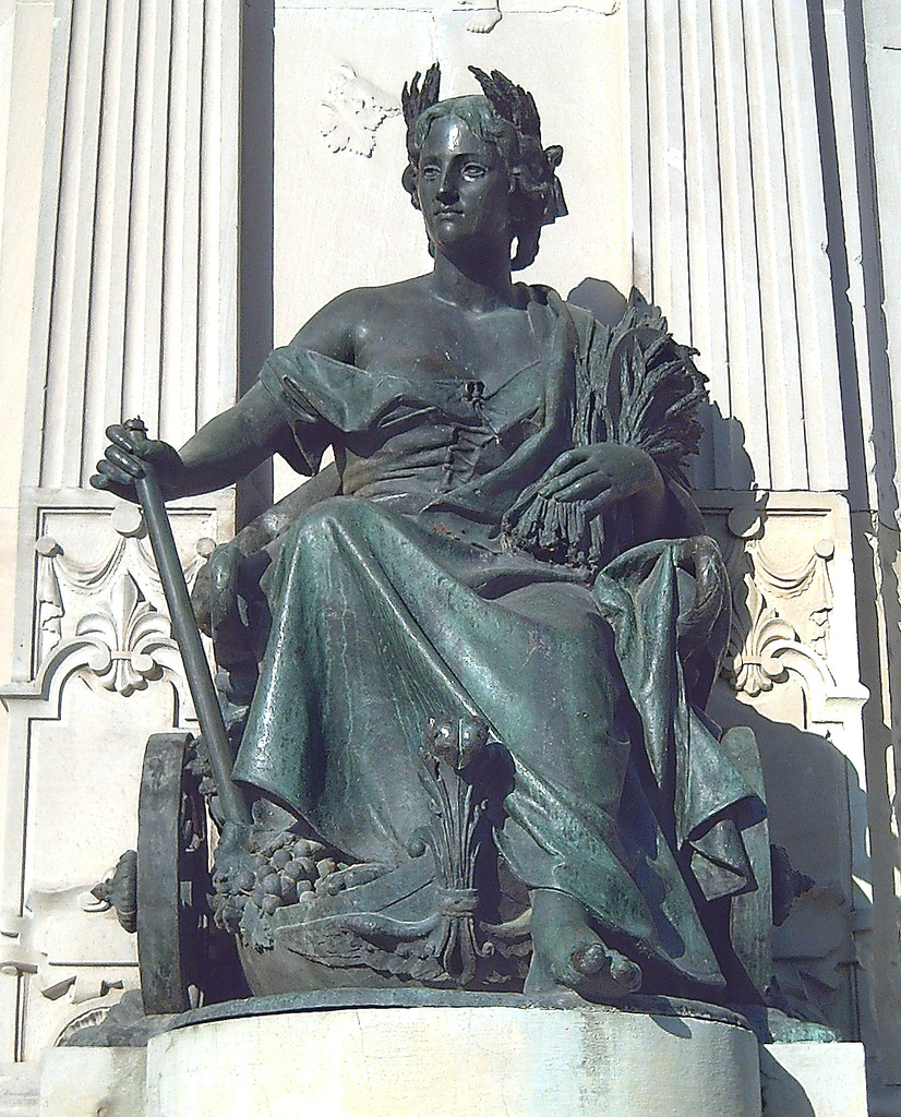 Agriculture. Bronze allegorical sculpture by José Alcoverro y Amorós. Detail of the Monument to Alfonso XII of Spain in the Retiro Park (Jardines del Buen Retiro) in Madrid, built from 1902 to 1922.